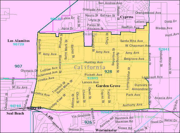 U.S. Census Bureau map of ZIP Code Tabulation Area(ZCTA) 92845 (West Garden Grove)